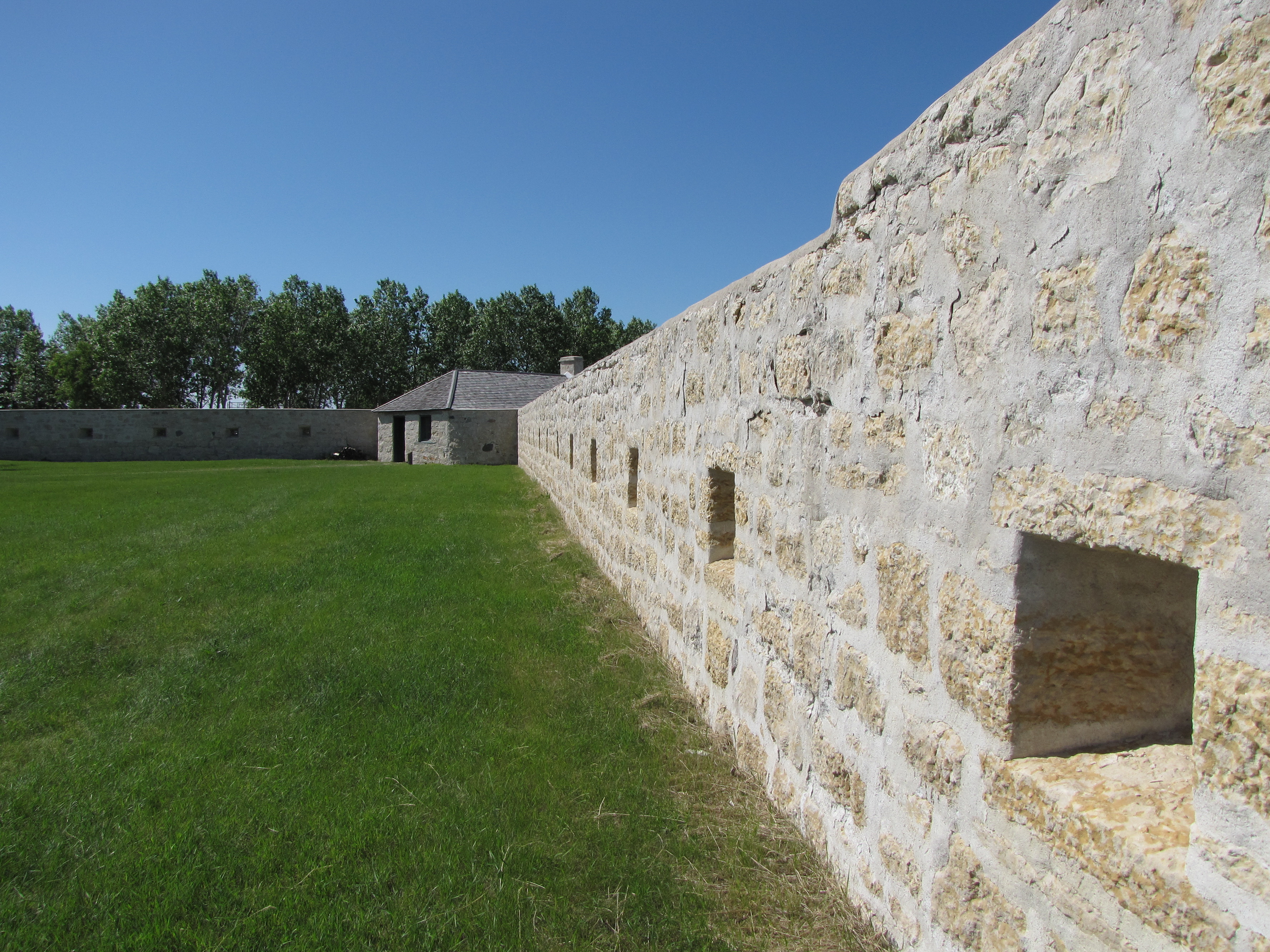 Lower Fort Garry, St. Andrews, Manitoba, Canada